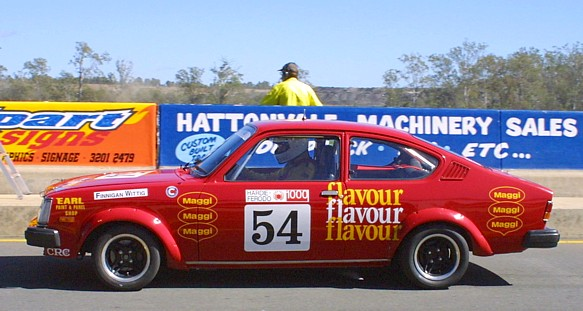 Isuzu Gemini as raced by Terry Finnigan and Ross Wittig